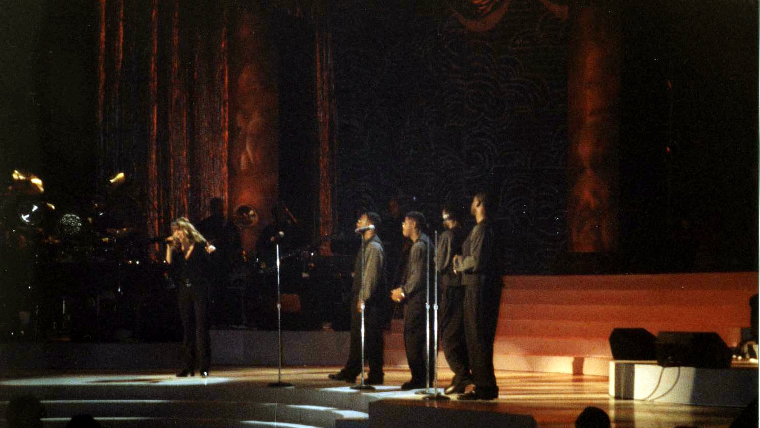 Mariah Carey and Boys II Men performing the song "One Sweet Day" at Madison Square Garden, NY on October 10, 1995.